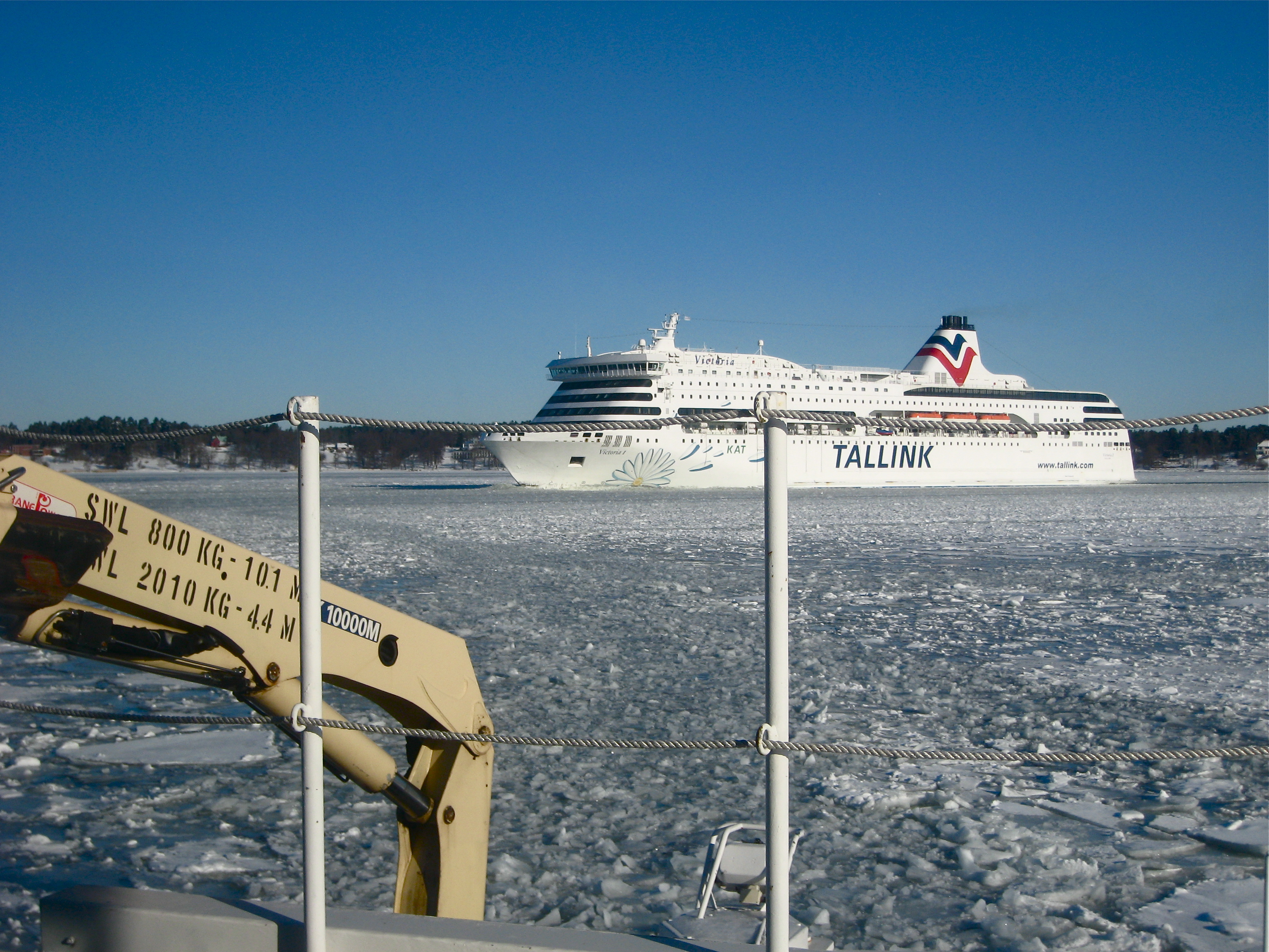 Victoria 1 på Höggarnsfjärden.